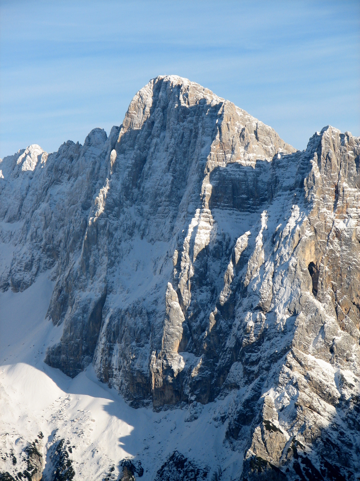 Škrlatica